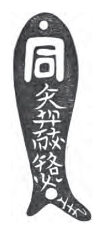 Woodcut facsimile of a bronze fish tally (魚符) with Small Khitan script inscription in the collection of Stephen Wootton Bushell (1844-1908). Inscription reads: [?] eu.ul ca.úr s.êŋ.un = "Commander [Xiangwen] of the Heaven Cloud Army" (Chinese 天雲軍詳穩) on the body of the fish, plus [?] zủ = "Imperial" on the tail.